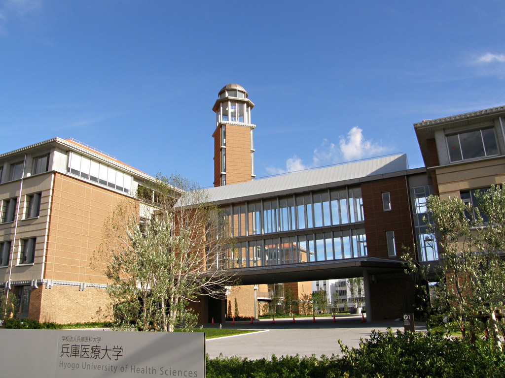 Hyogo University of Health Sciences